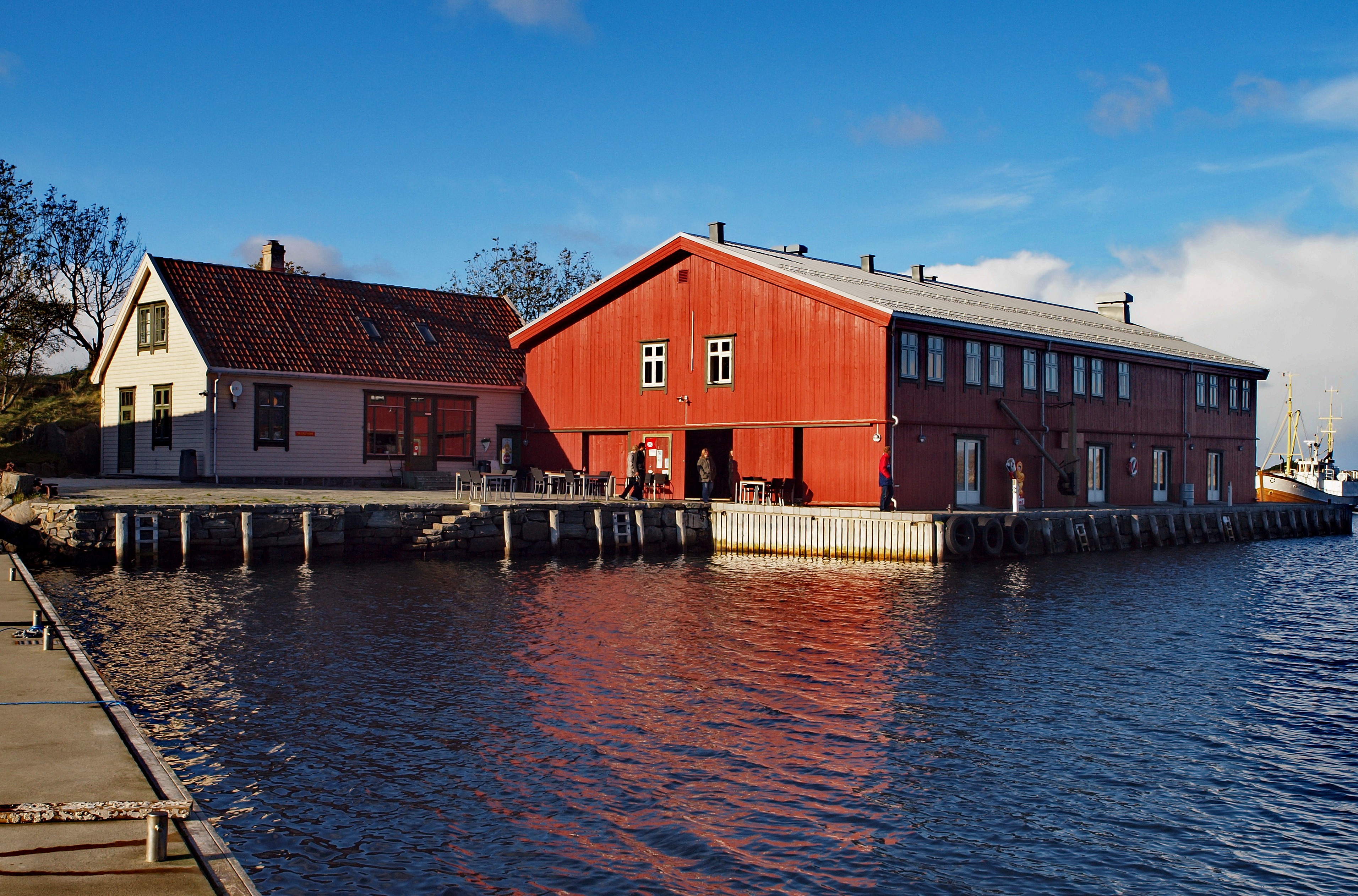 Skjerjehamn, Gulen municipality, Sogn og Fjordane county, Norway.